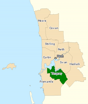 This image incorporates data that is: © Commonwealth of Australia (Australian Electoral Commission) 2009 Division of Tangney 2010